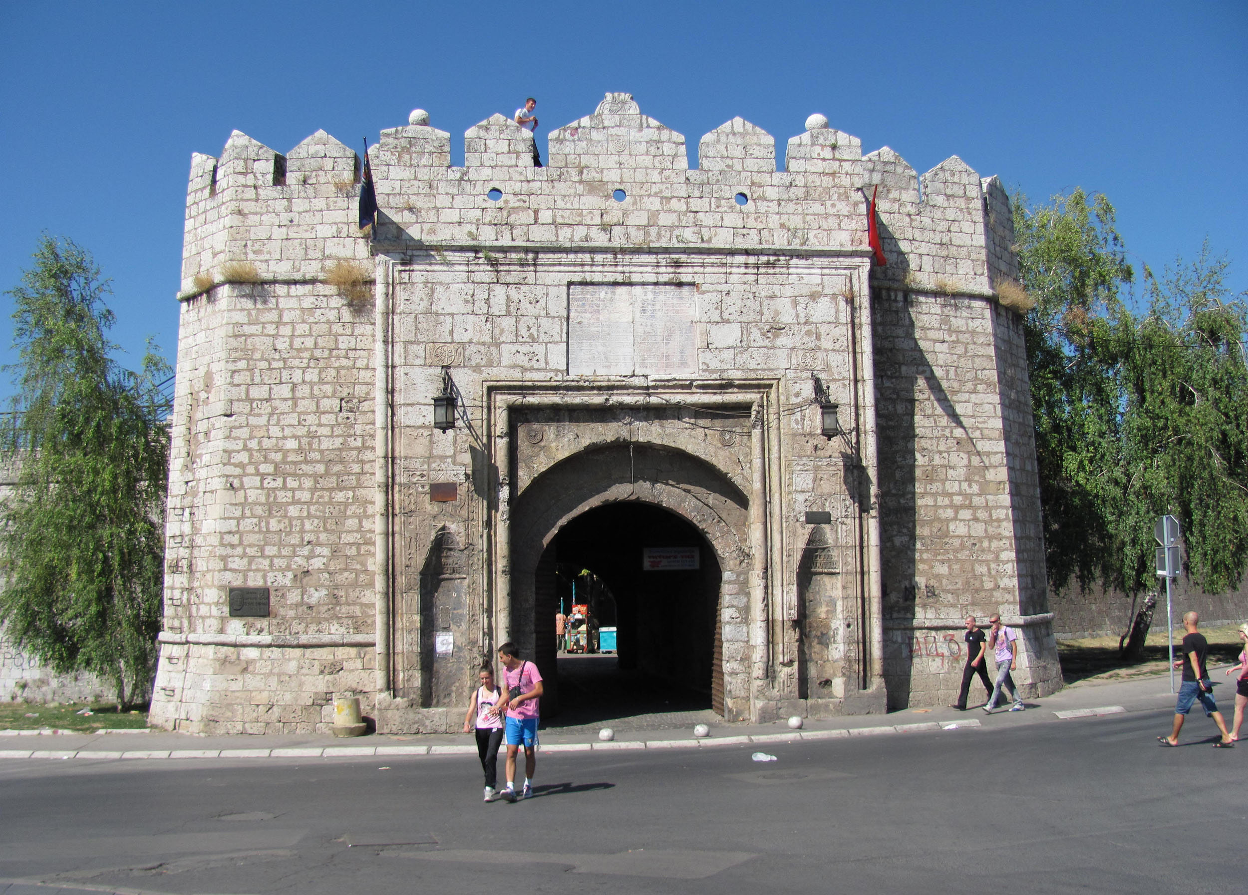 Entrance to the Fortress of Nis, Serbia.